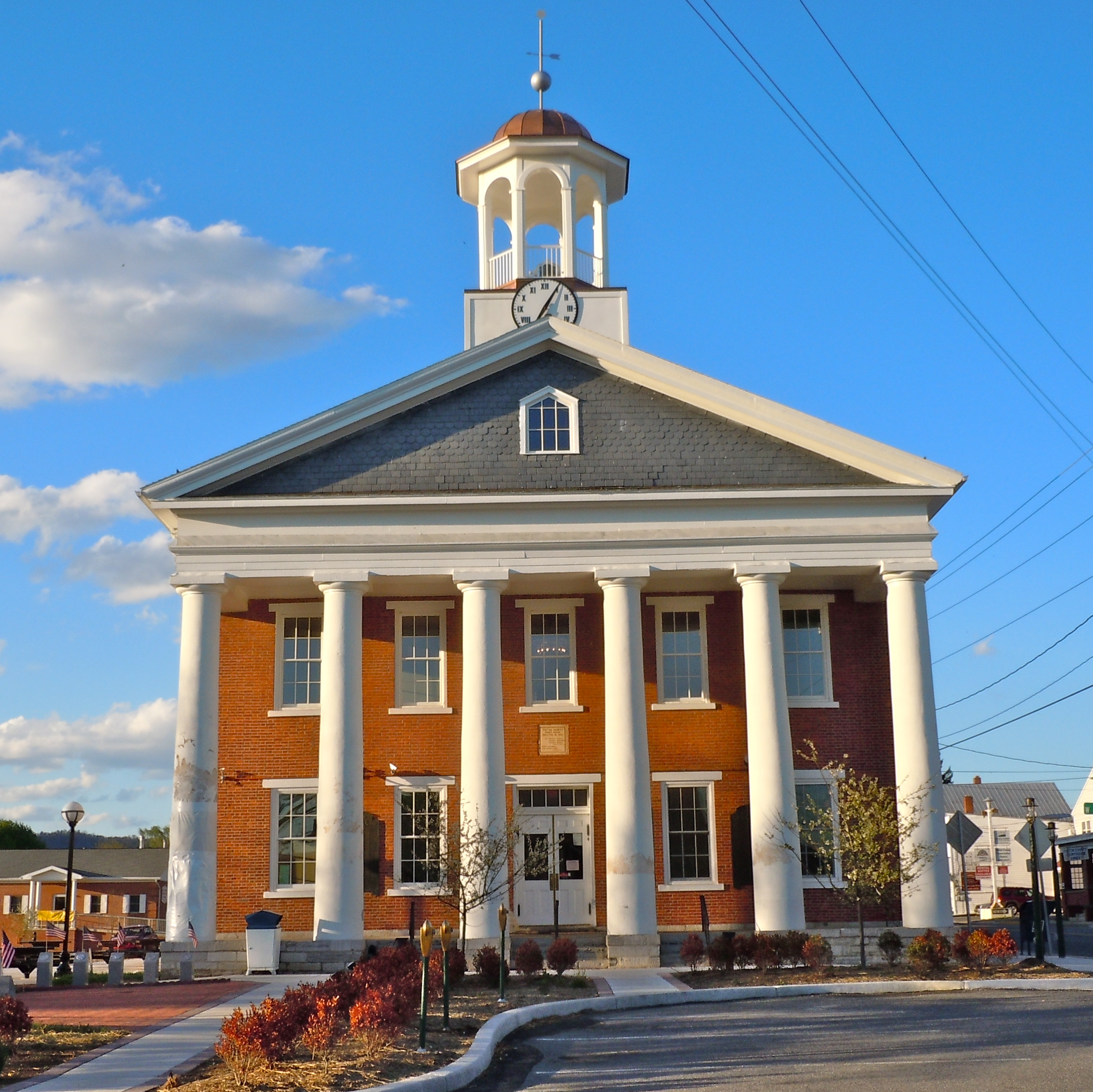 Fulton County Courthouse in McConnellsburg, Pennsylvania. Part of the McConnellsburg Historic District on the NRHP since August 9, 1993. The historic district goes roughly along Lincoln Way from 1st Street to 5th Avenue and 2nd Street from Spruce Street to Maple Street.